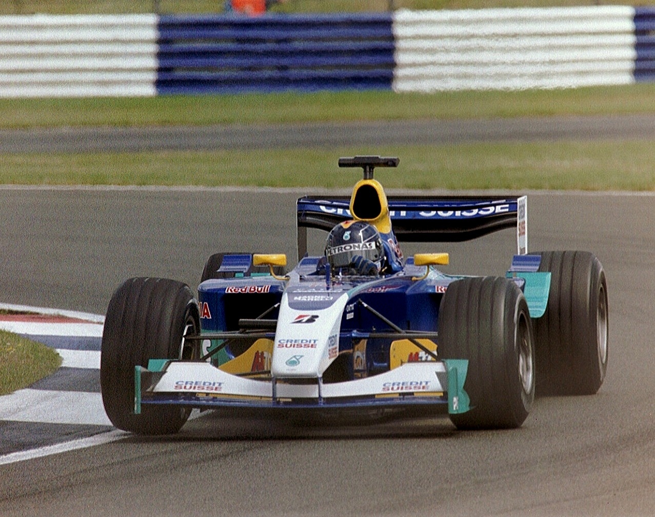 Heinz-Harald Frentzen, driving his Sauber Petronas at the 2003 British Grand Prix.